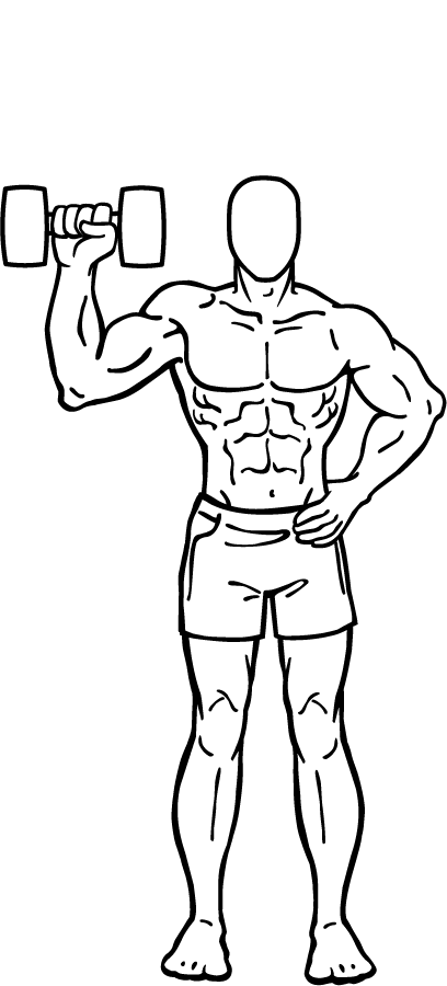 an exercise of shoulder